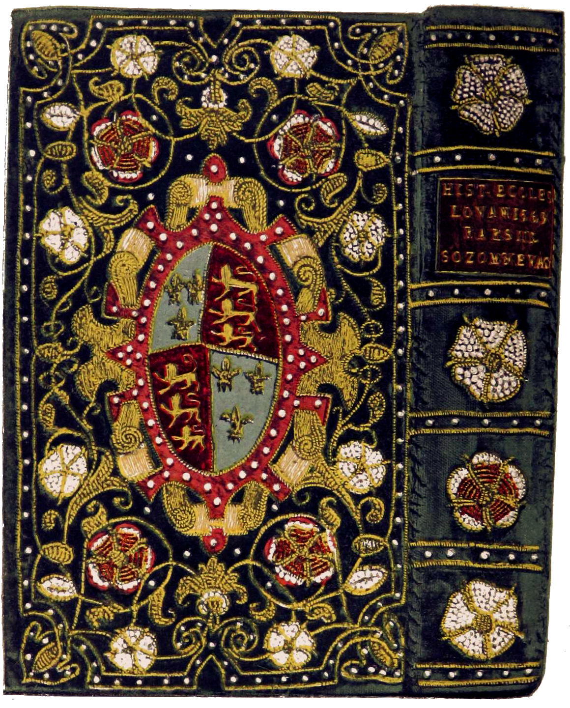 Embroidered bookbinding. "The book is in three volumes, and is a copy of the Historia Ecclesiastica, written by [John] Christopherson, Bishop of Chichester, and printed at Louvain in 1569. Each of these volumes is bound in the same way, so the description of one of them will serve for all, except that no one volume is perfect, so the description must be taken as representing only what each originally was. "It is covered in deep green velvet, and measures 6 by 3½ inches, the design being the same on each side. In the centre the royal coat-of-arms is appliqué in blue and red satin, on an ornamental cartouche of pink satin, with scrolls of gold threads and coloured silks, richly dotted with small pearls. The bearings on the coats-of-arms are solidly worked in fine gold threads. "From each corner of the sides springs a rose spray, with Tudor roses of red silk mixed with pearls, and Yorkist roses all worked in pearls clustering tight together, the leaves and stems being made in gold cord and guimp. A decoratively arranged ribbon outlined with gold cord and filled in with a line of small pearls set near each other, encloses the design, and numerous 59single pearls are set in the spaces between the roses and their leaves and stems. The back is divided into five panels bearing alternately Yorkist roses of pearls and Tudor roses of red silk and pearls, all worked in the same way as the roses on the sides. "The illustration I give of this binding (Frontispiece) is necessarily a restoration. But there is nothing added which was not originally on the book. Each pearl that has disappeared has left a little impress on the velvet, and so has each piece of gold cord which has been pulled off. The back is still existing; but bad though both sides and back now are, it is much better they should be in their present condition than that they should have been mended or replaced in parts by newer material."